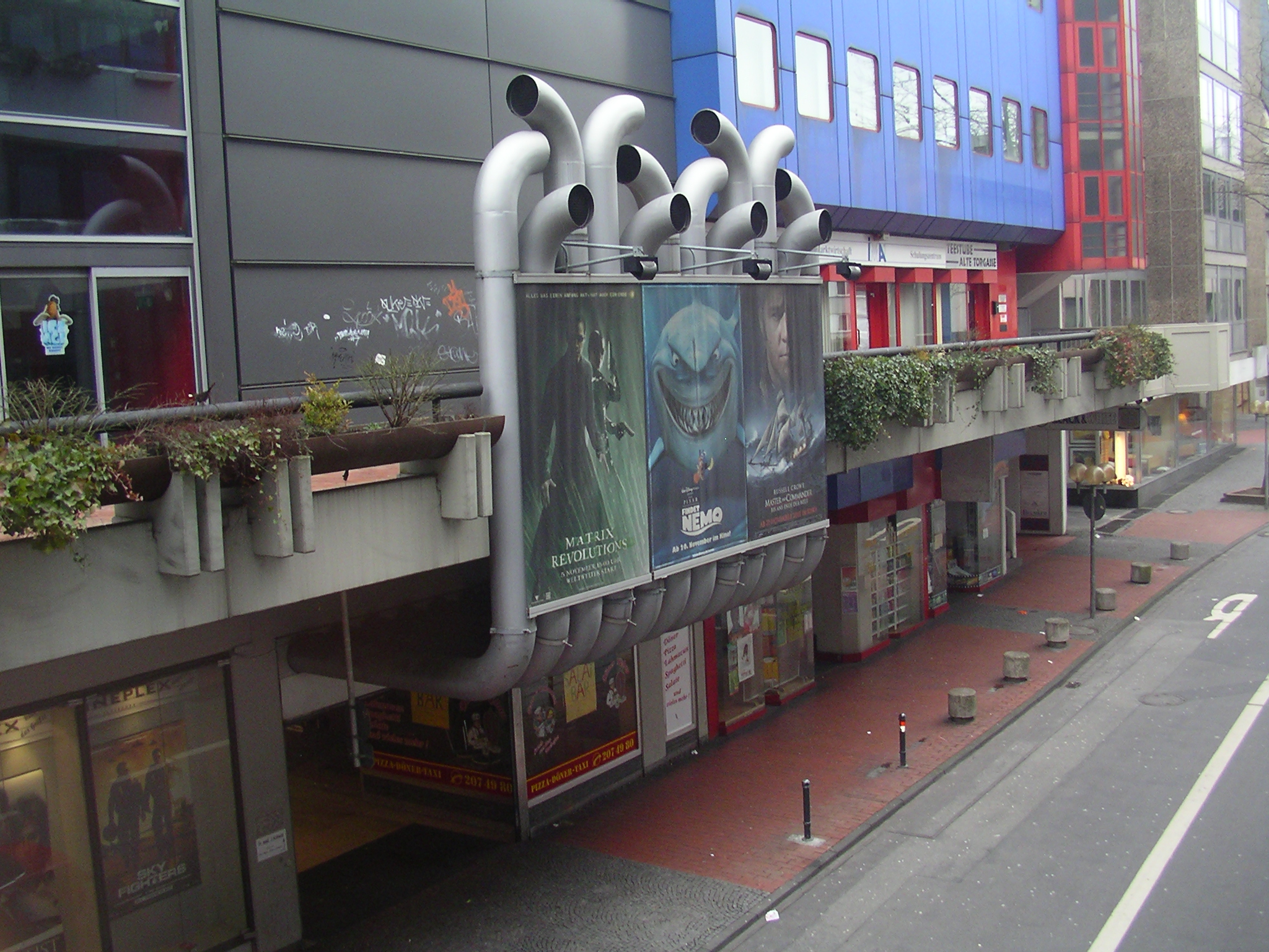 You see the entrance of the cinema passage (Cineplex).